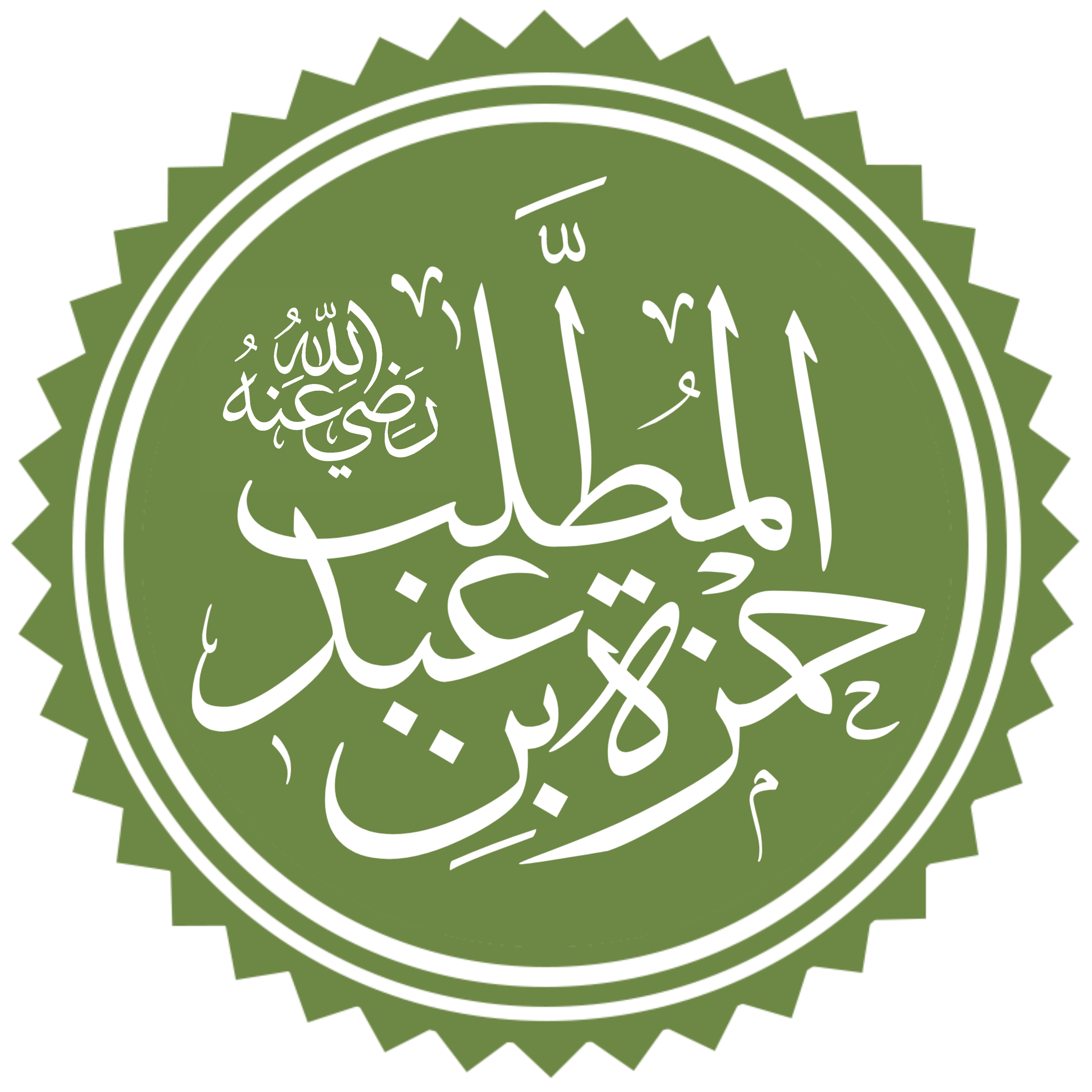 Hamza Bin Abd Al-Mottalib Name